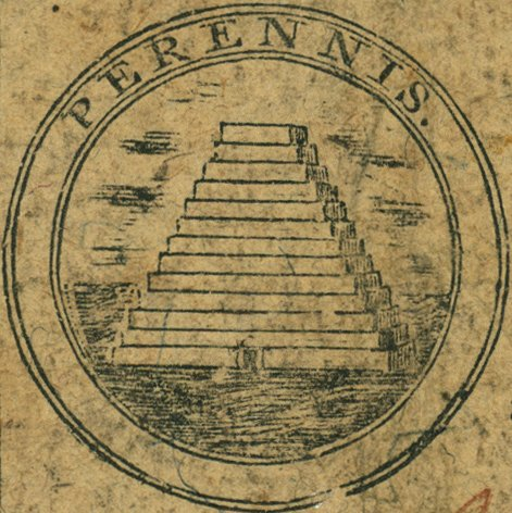 Detail of a $50 Continental Currency note from 1778. The note was designed by Francis Hopkinson, and this unfinished pyramid design was a precursor to the reverse side of the Great Seal of the United States, which Hopkinson later worked on, though using different designs. Later in the Great Seal process, William Barton took this pyramid and added the Eye Of Providence overhead (itself taken from a still earlier Great Seal attempt).